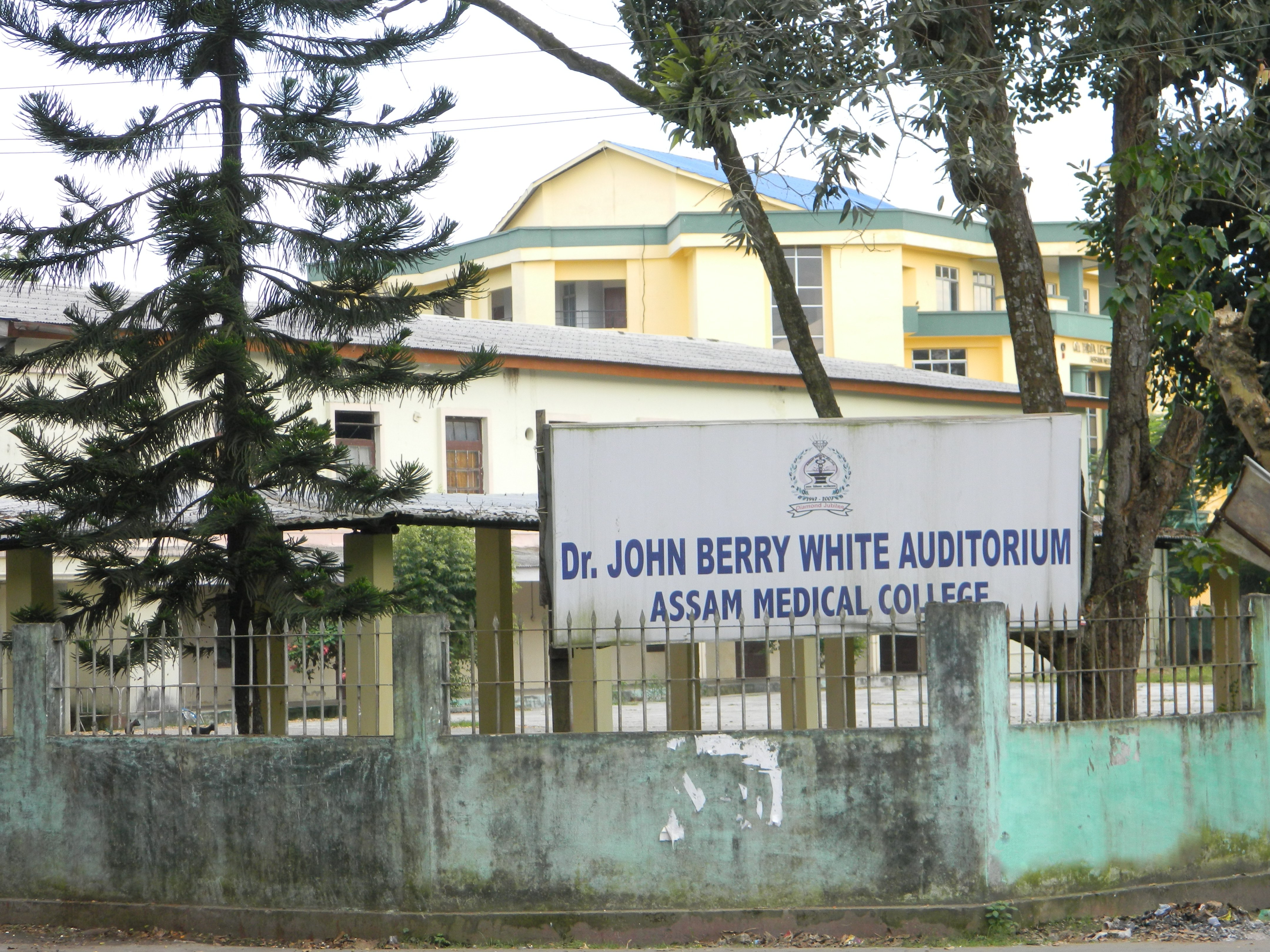 Dr John Berry White Auditorium, AMCH, Dibrugarh